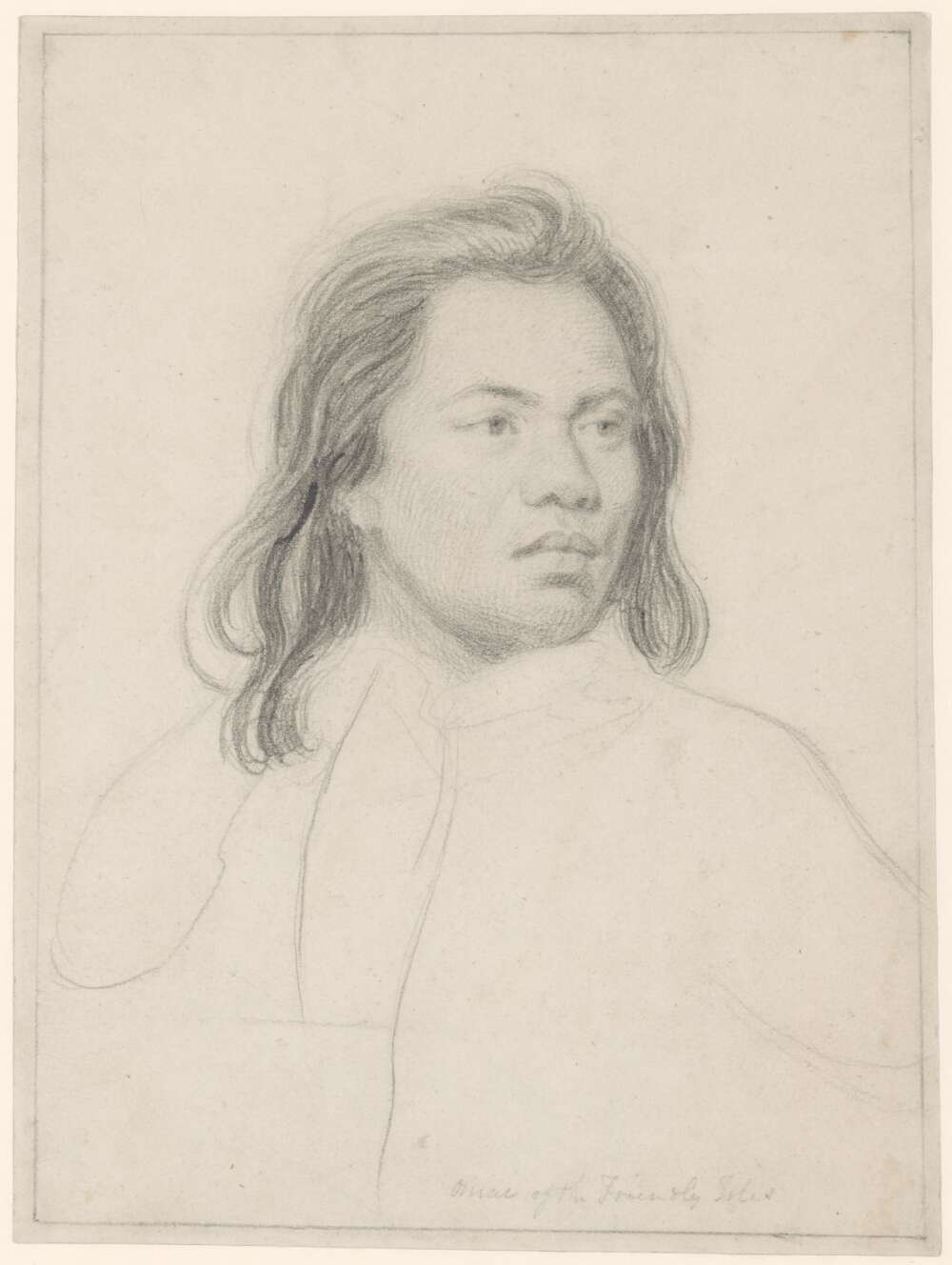 Omai of the Friendly Isles by Sir Joshua Reynolds (1723–1792)